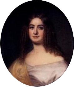 Eliza Ann Hall, wife of the surgeon Lewis Albert Sayre (1820–1900).